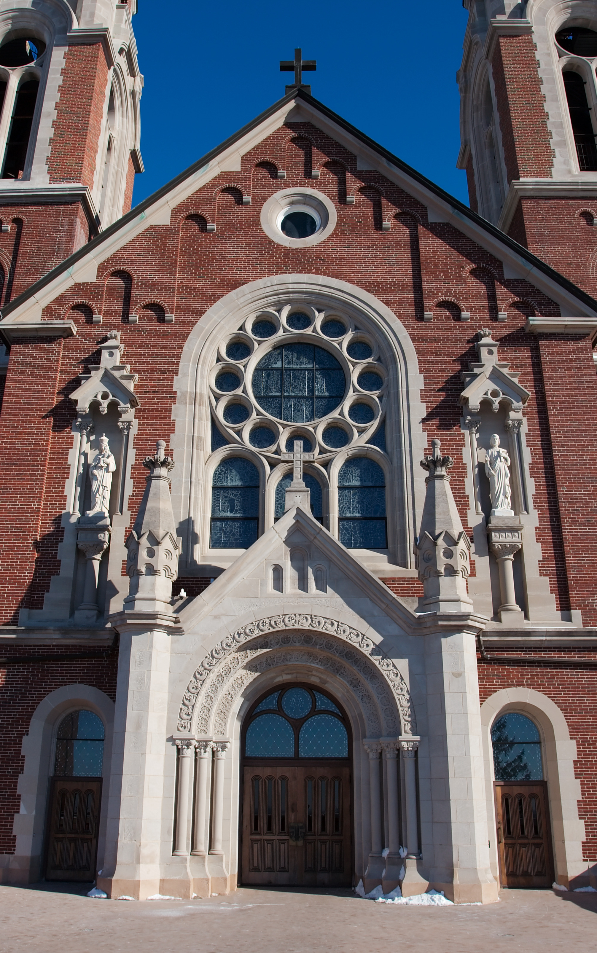 Holy Hill National Shrine of Mary, Help of Christians, Erin, Wisconsin